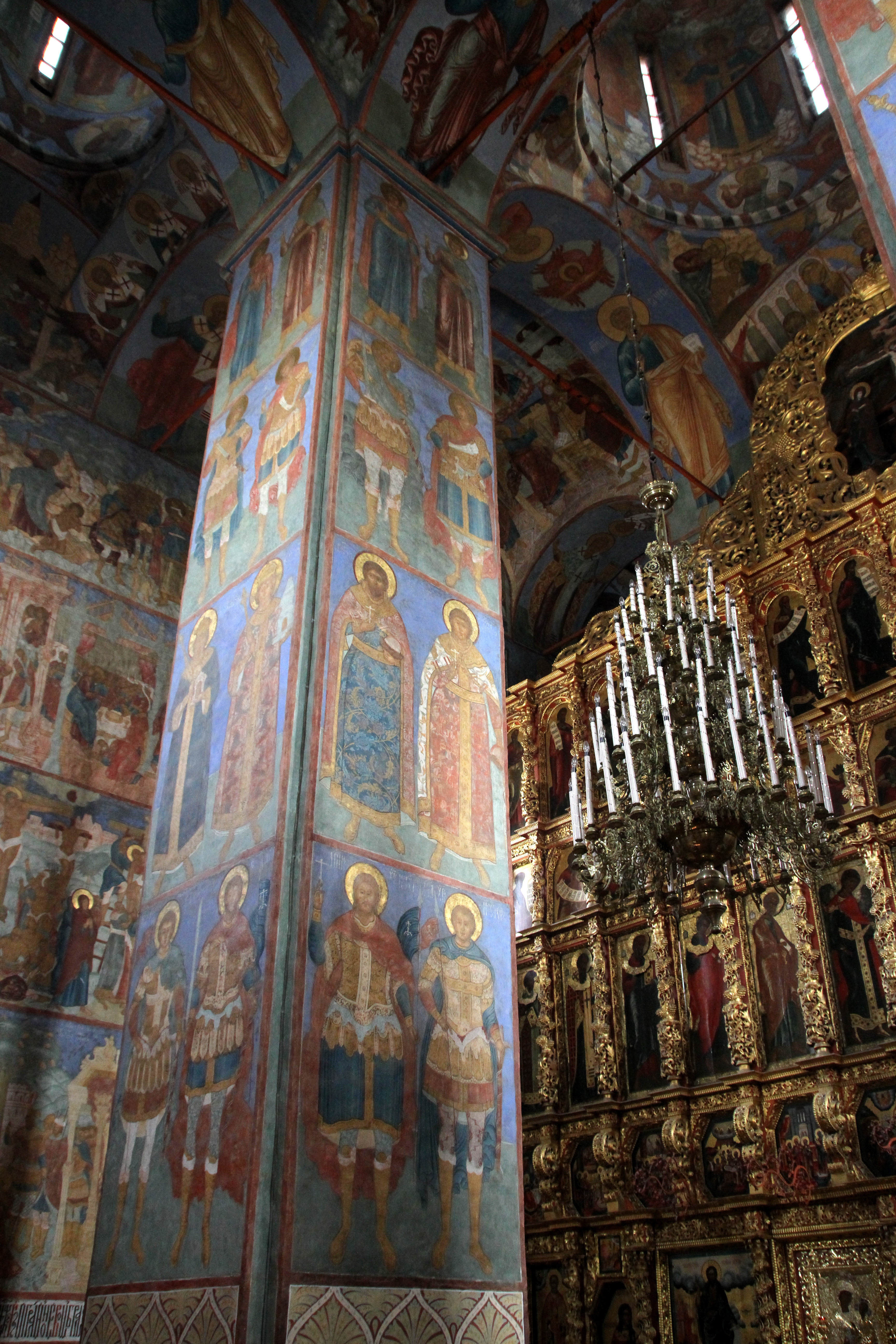 Ipatiev Monastery